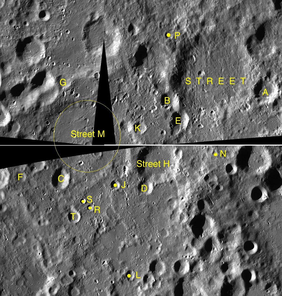 Parts of the charts LAC-111, LAC-112, LAC-126 used for the presentation